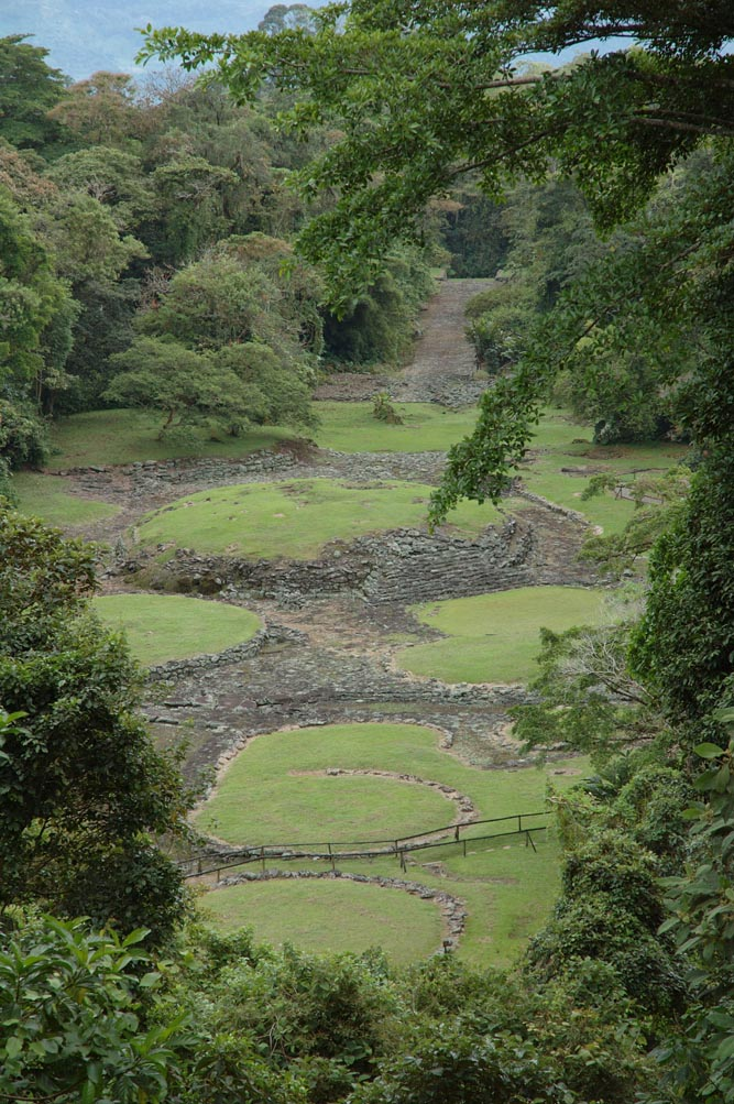 Monumento Nacional Arqueologico Guayabo is probably the largest archaeological site in Costa Rica.